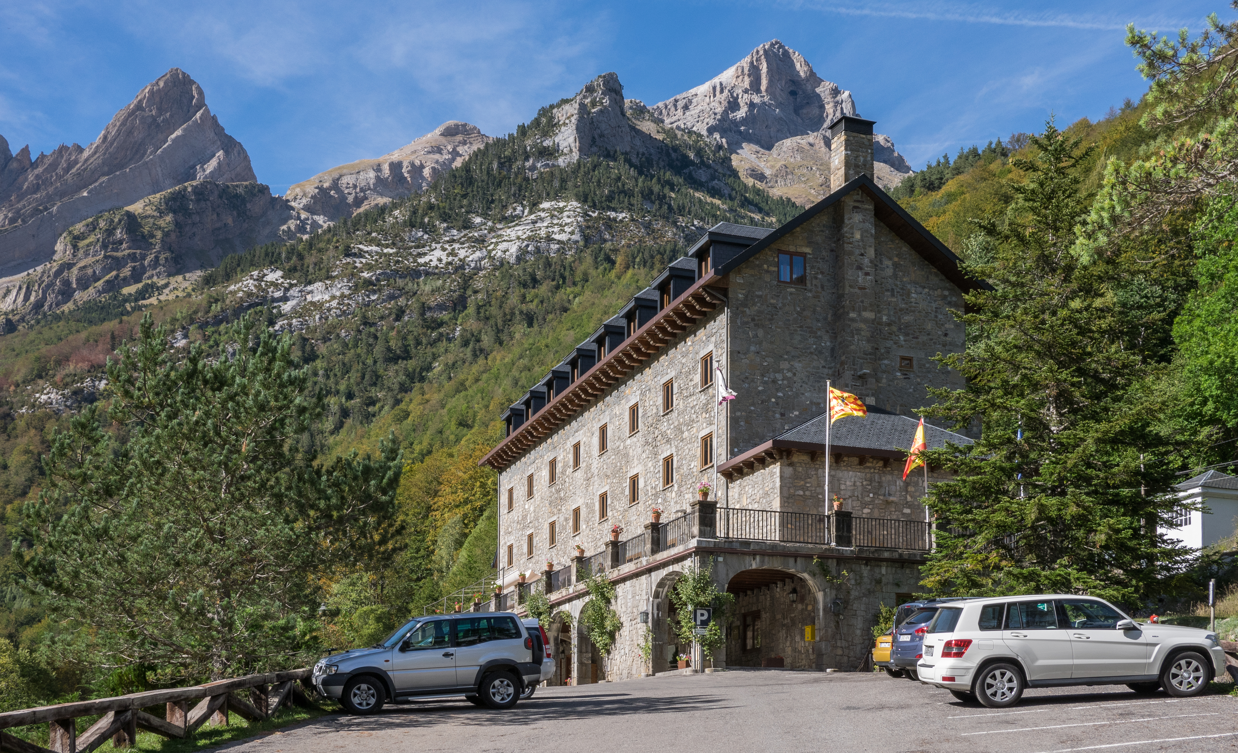 Hotel "Parador Nacional de Turismo" in the Pineta valley. Sobrarbe, Huesca, Aragón, Spain